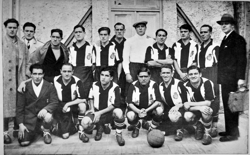 RCD Espanyol football team during their tour on Argentina. The squad played a series of friendly matches there.